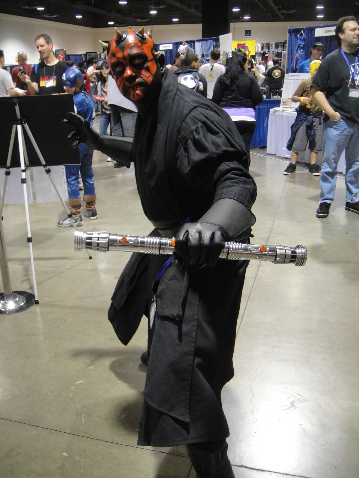 photo 2011 Pop Culture Geek taken by Doug Kline If you're interested in higher resolution versions of my images, contact me via my profile page.